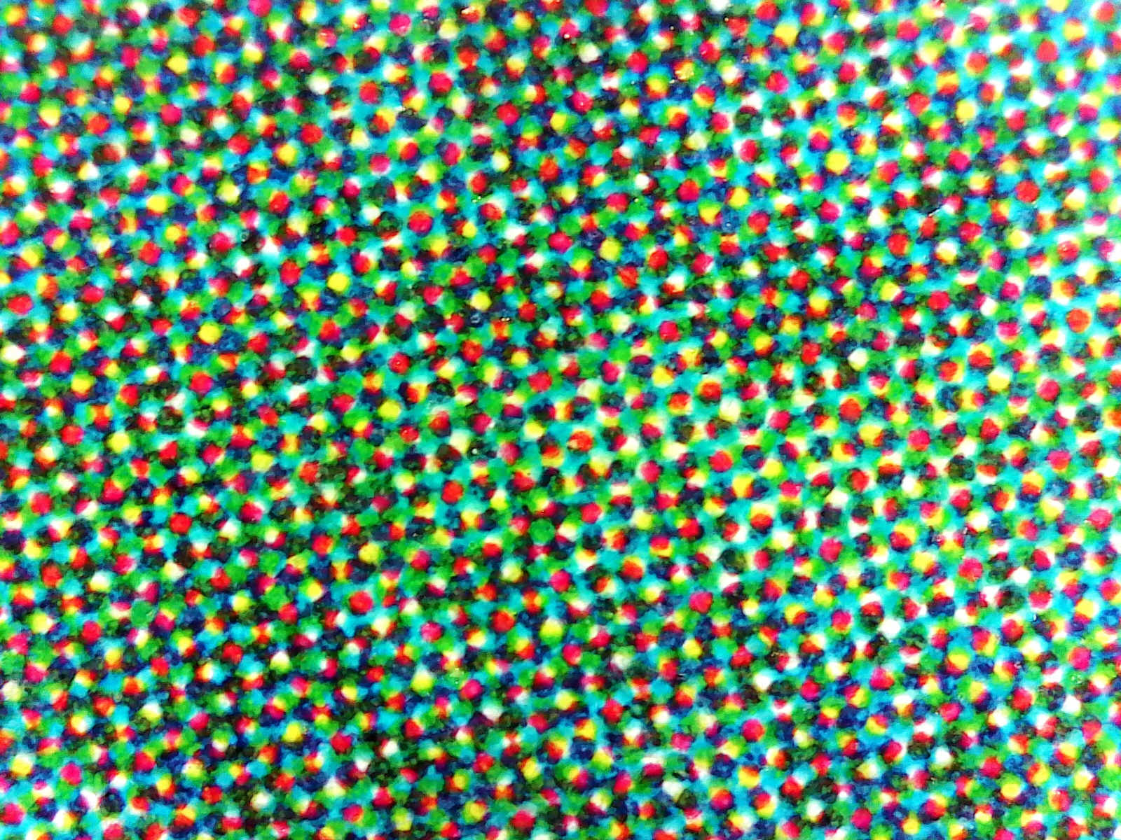 File:CMYK closeup.jpg, even closer up.